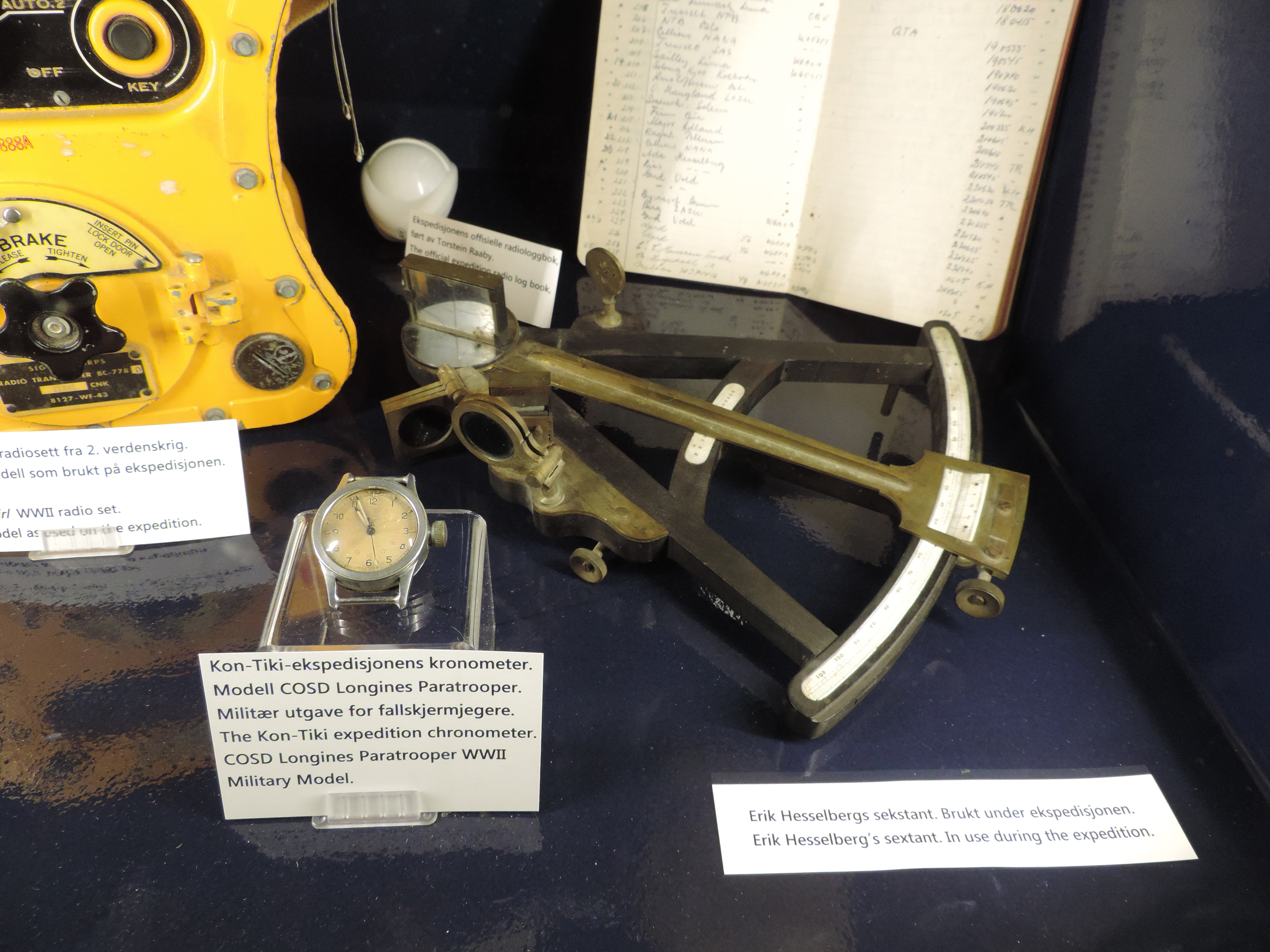 The Kon-Tiki expedition chronometer and Erik Hesseberg's sextant. Exhibits of the Kon-Tiki Museum